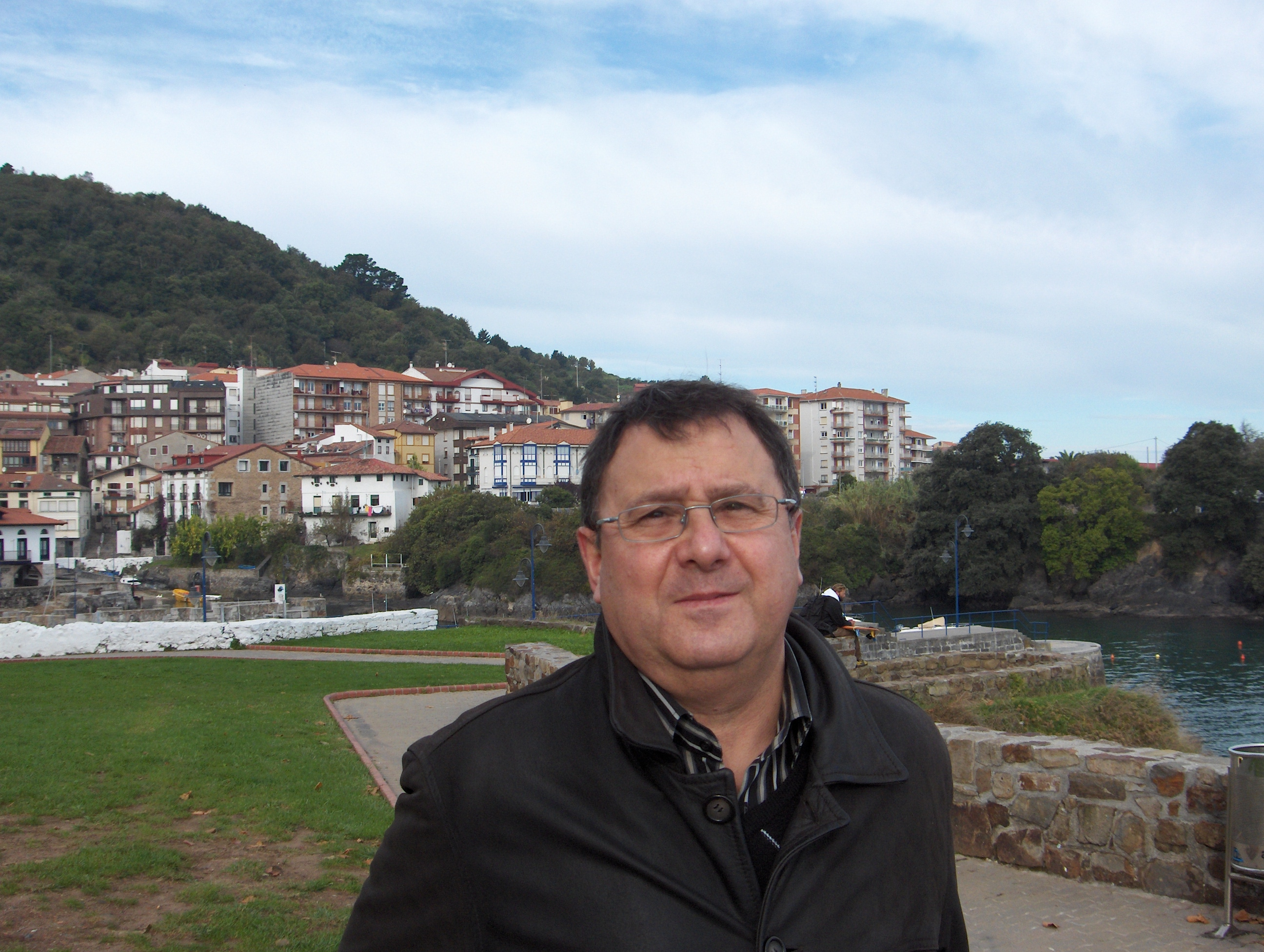 Picture of Occitan language writer Sèrgi Javaloyès in Mundaka, Basque Country.